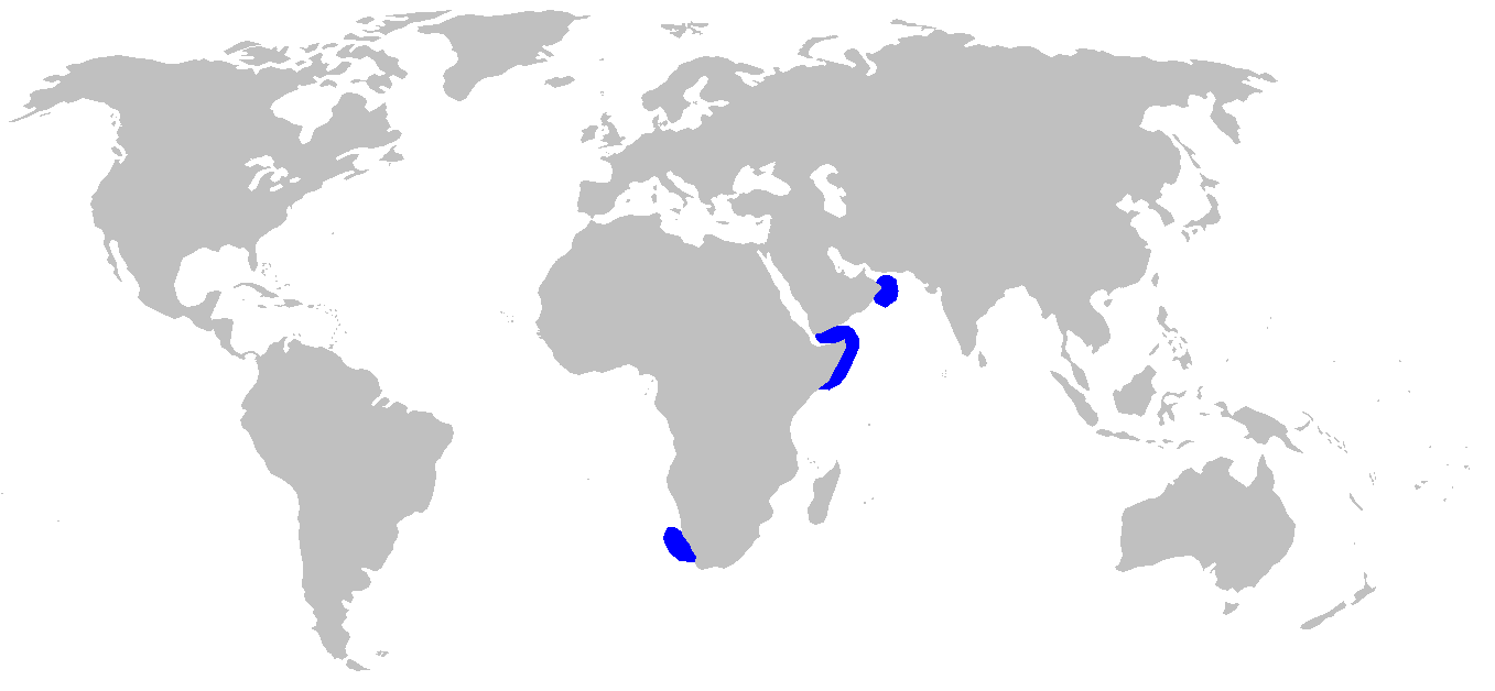 Distribution map for Apristurus indicus